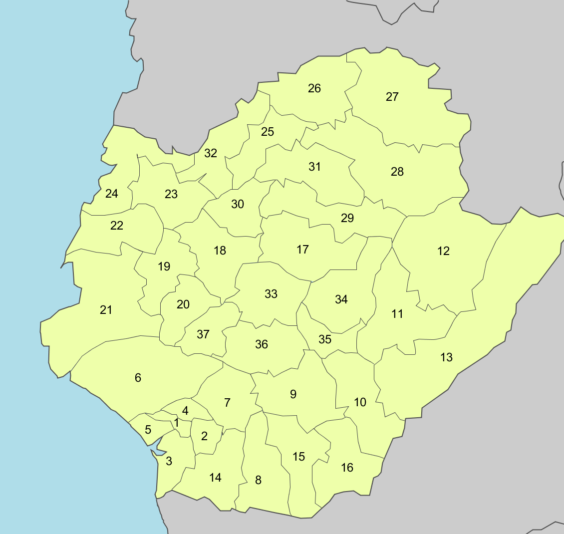 The subdivisions of Tainan City numbered for districts list. For the maps of specific districts, look in this category please.